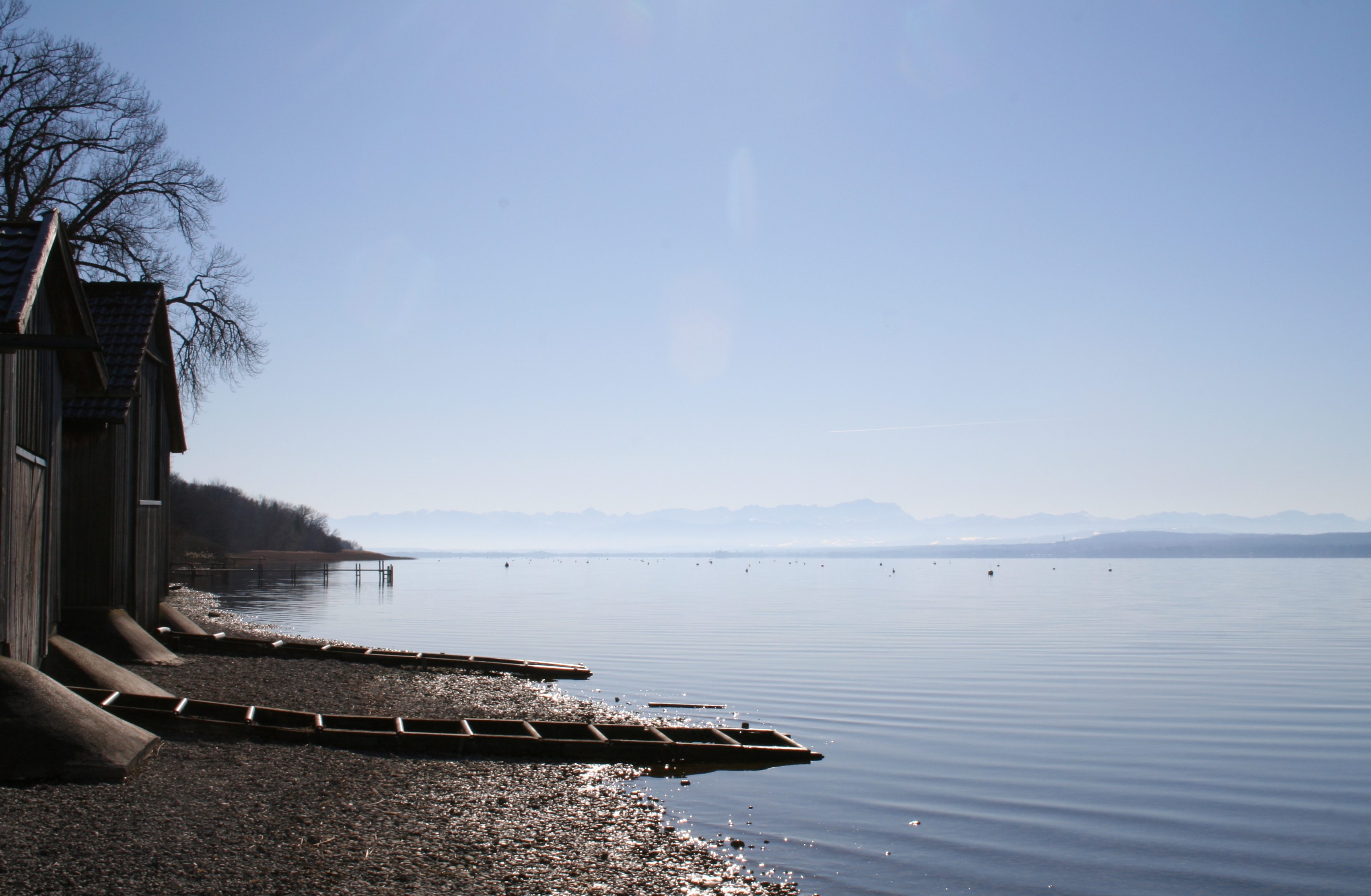 Ammersee, looking south from Breitbrunn